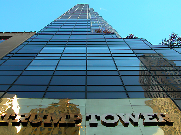 Trump Tower from the sidewalk